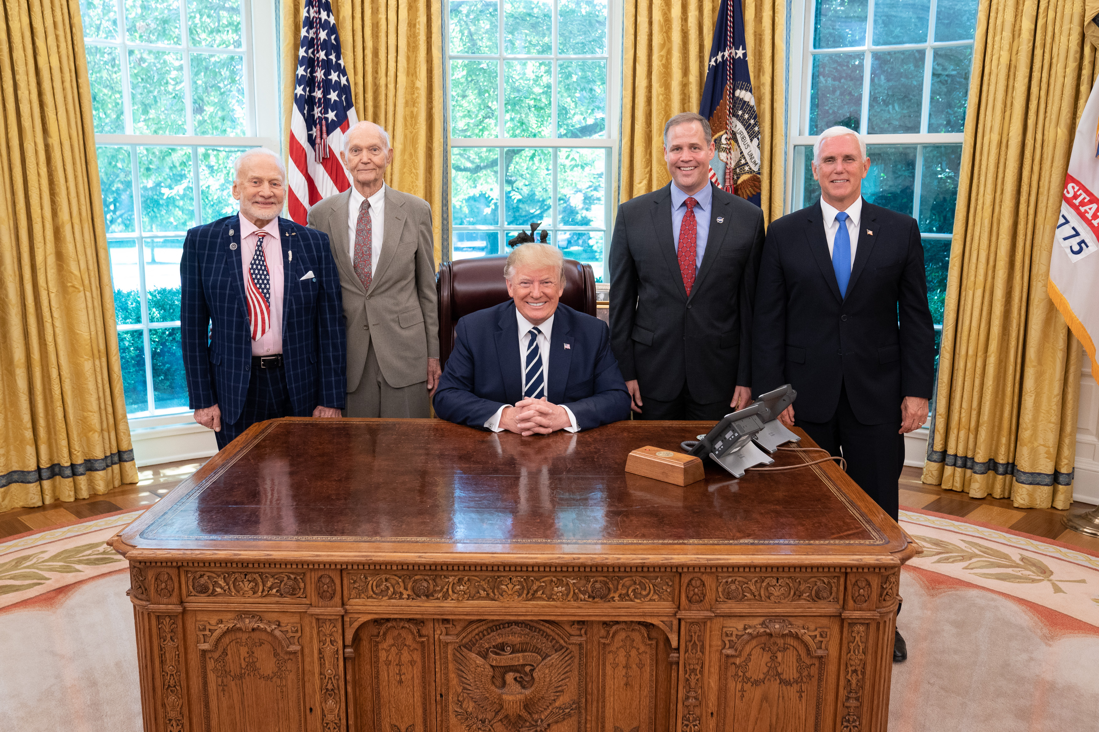 President Donald J. Trump, Vice President Mike Pence and NASA Administrator Jim Bridenstine welcome Apollo 11 astronauts Buzz Aldrin and Michael Collins, along with the family members of astronaut Neil Armstrong, Friday, July 19, 2019, to the Oval Office of the White House to commemorate the 50th anniversary of the Apollo 11 Moon Landing. (Official White House Photo by Shealah Craighead)